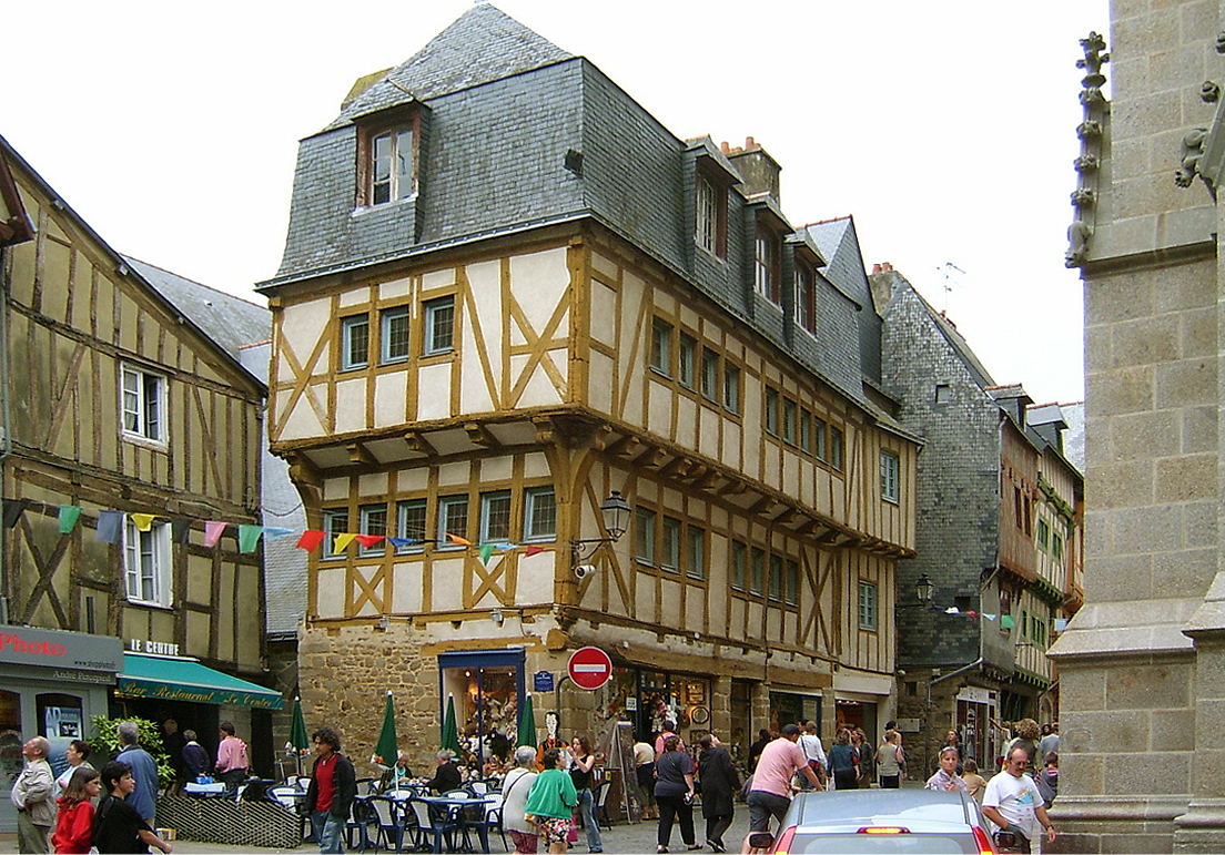 Old town of Vannes (Bretagne, France)